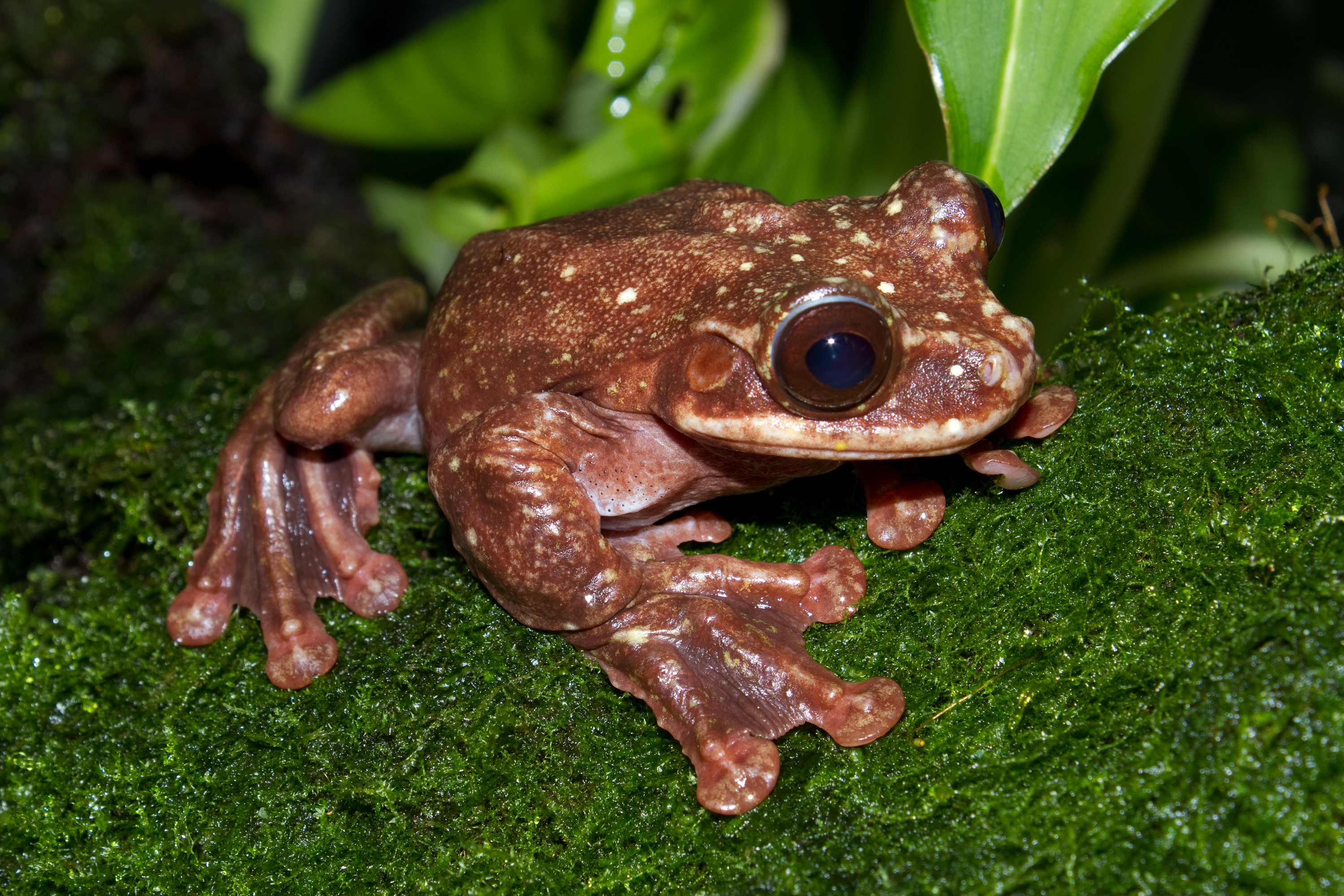 Ecnomiohyla rabborum (Rabb's Fringe-limbed Treefrog).